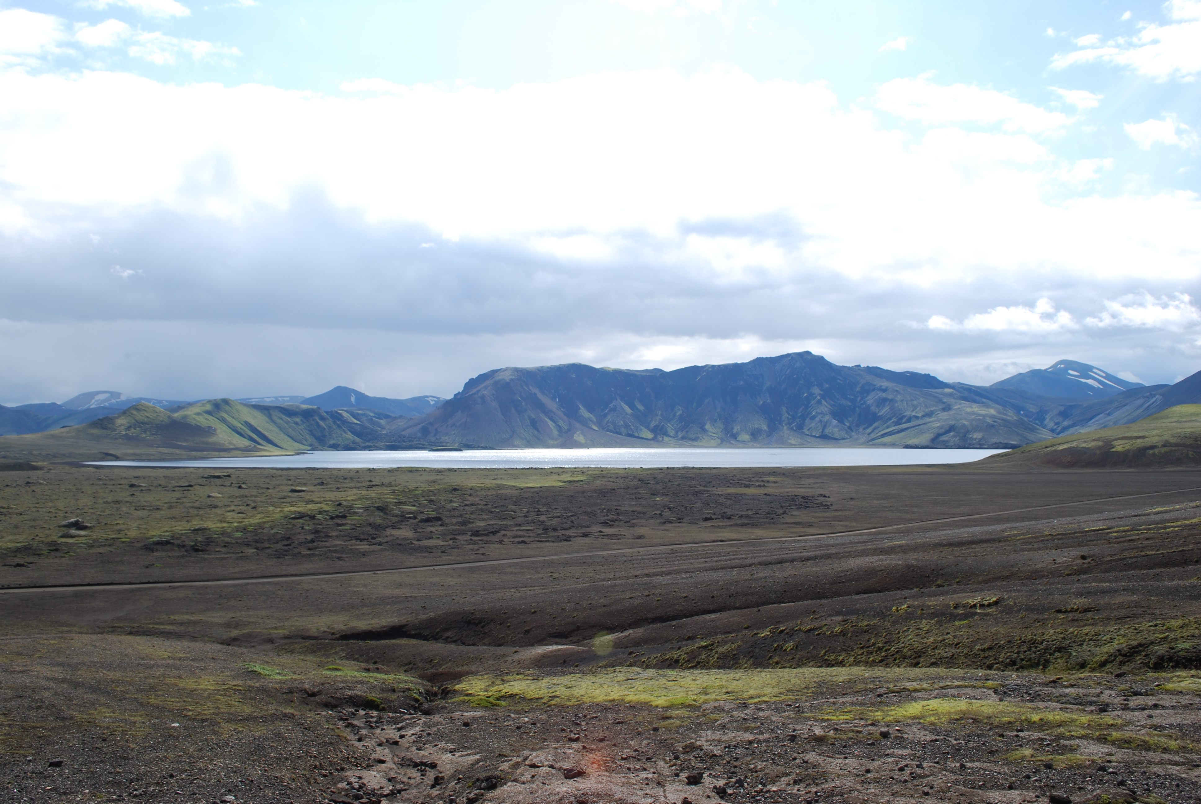 Frostastaðavatn lake near Landmannalaugar, Iceland